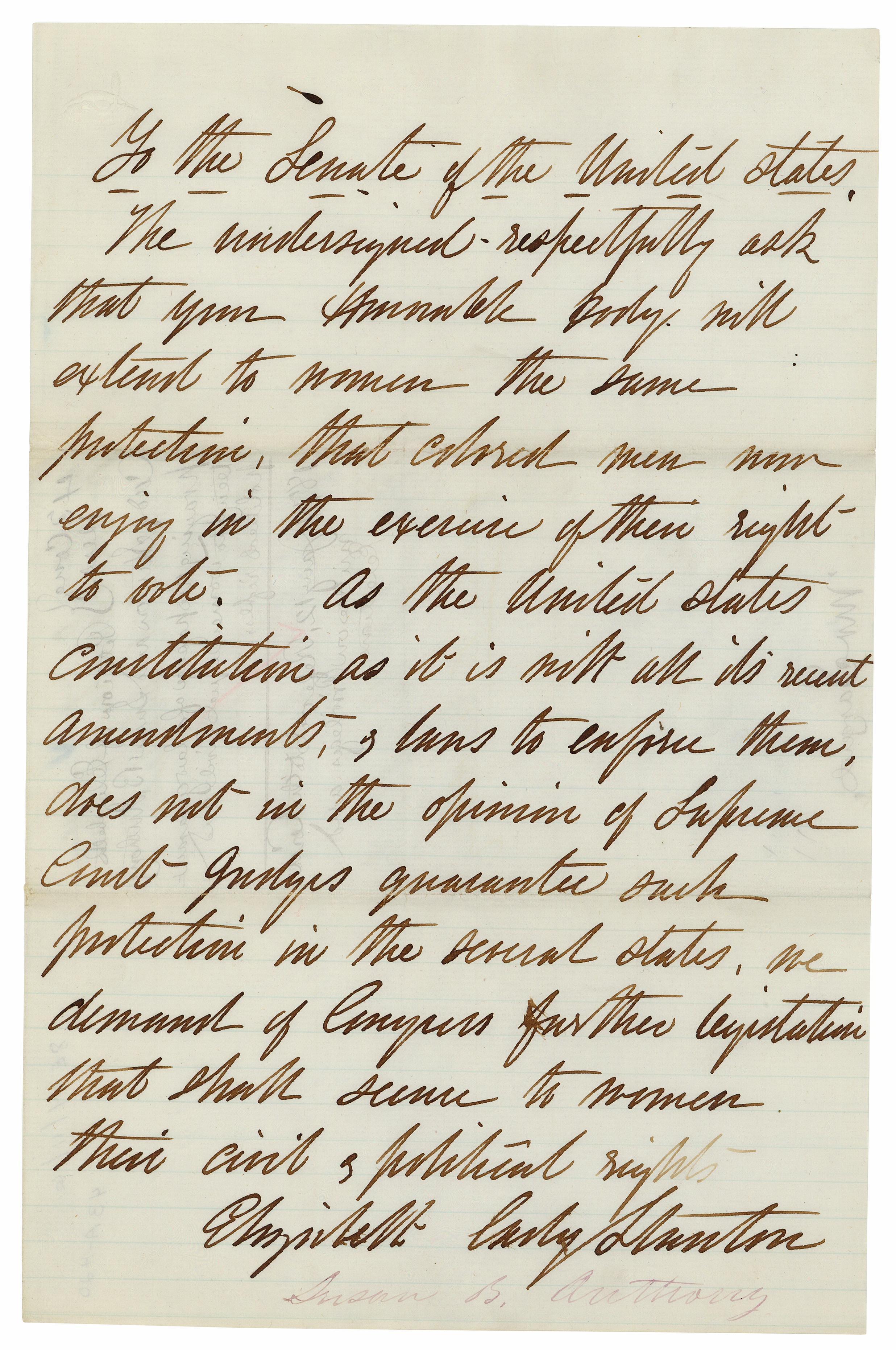 Original Caption: Petition from Susan B. Anthony and Elizabeth Cady Stanton to the United States Senate, ca. 12/1874 Created By: U.S. Senate. Committee on Privileges and Elections. (1871 - 1946) From: Record Group/Collection: 46 From: Petitions and Memorials Referred to the Committee on Privileges and Elections in the 43rd Congress, 03/04/1873 - 03/03/1875 Production Dates: ca. 12/1874 Scope and Content Note: In this petition Elizabeth Cady Stanton and Susan B. Anthony ask the Senate to extend the right to vote to women. Persistent URL: Reference Unit: Center for Legislative Archives (NWL), National Archives Building Access Restrictions: Unrestricted Use Restrictions: Unrestricted